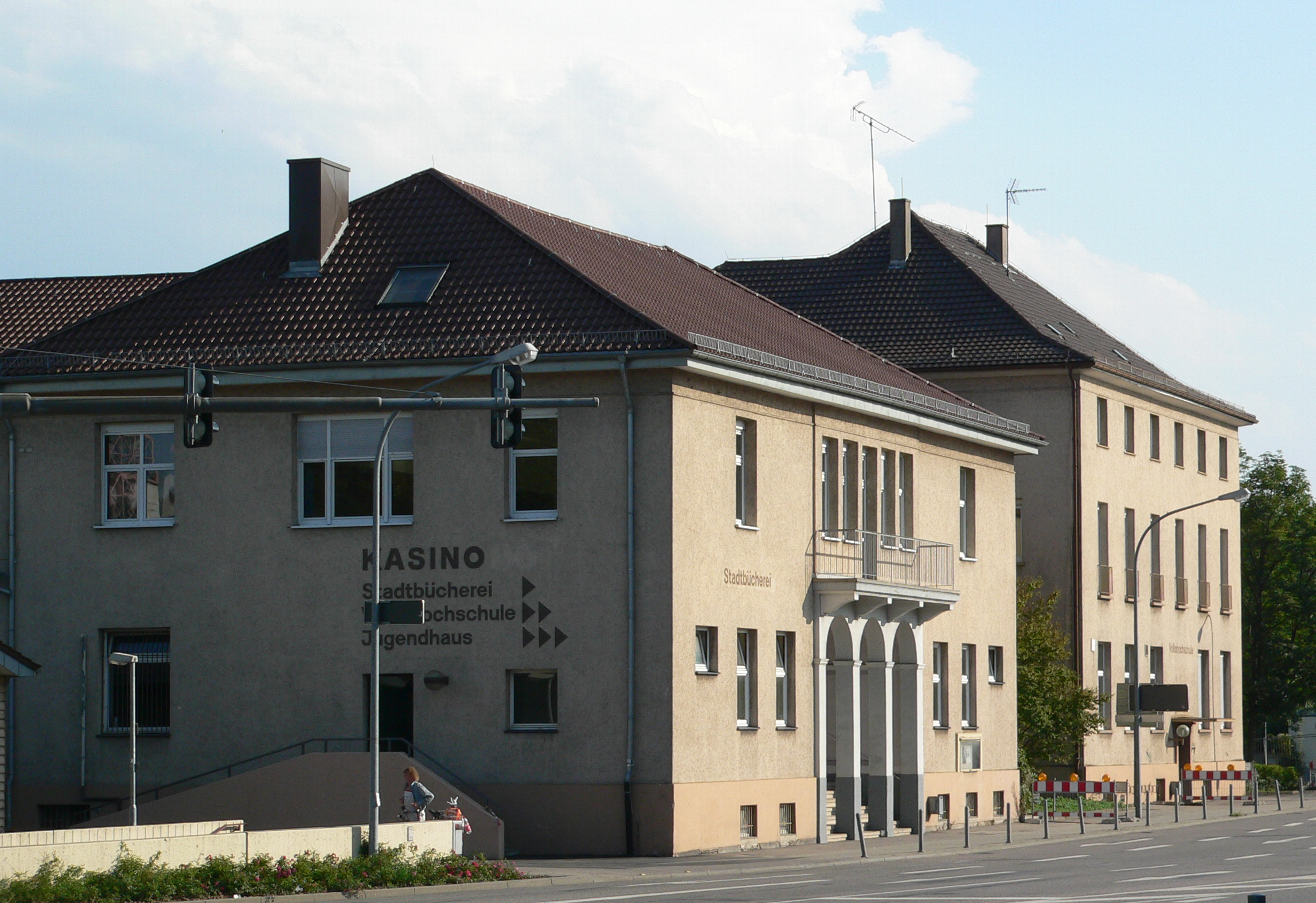 The old building "NSU-Kasino" of the company NSU Motorenwerke (before the pulling down in October 2005) Neckarsulm / Germany